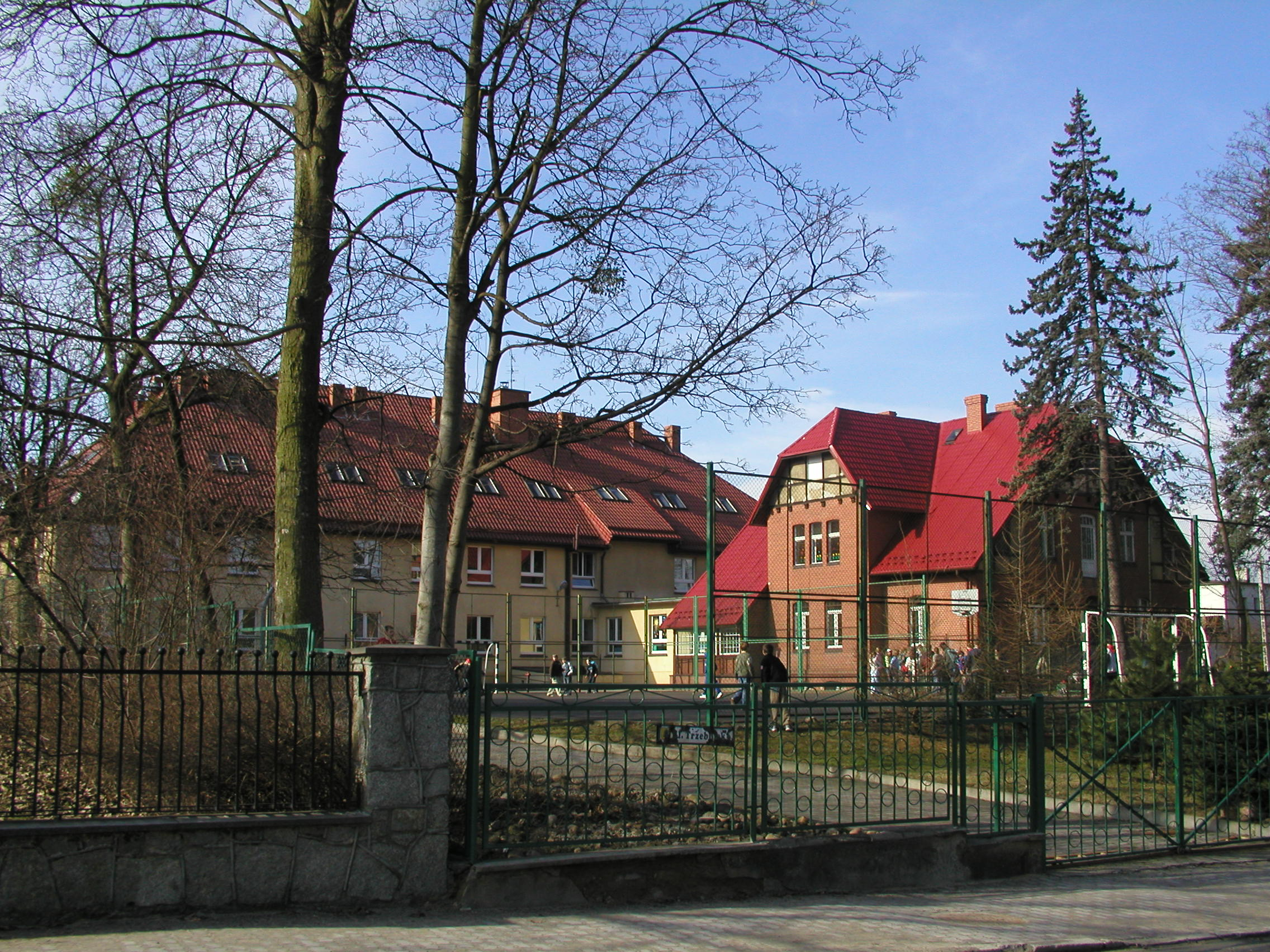 Primaryschool nr 3 in Oborniki Śląskie (Poland)